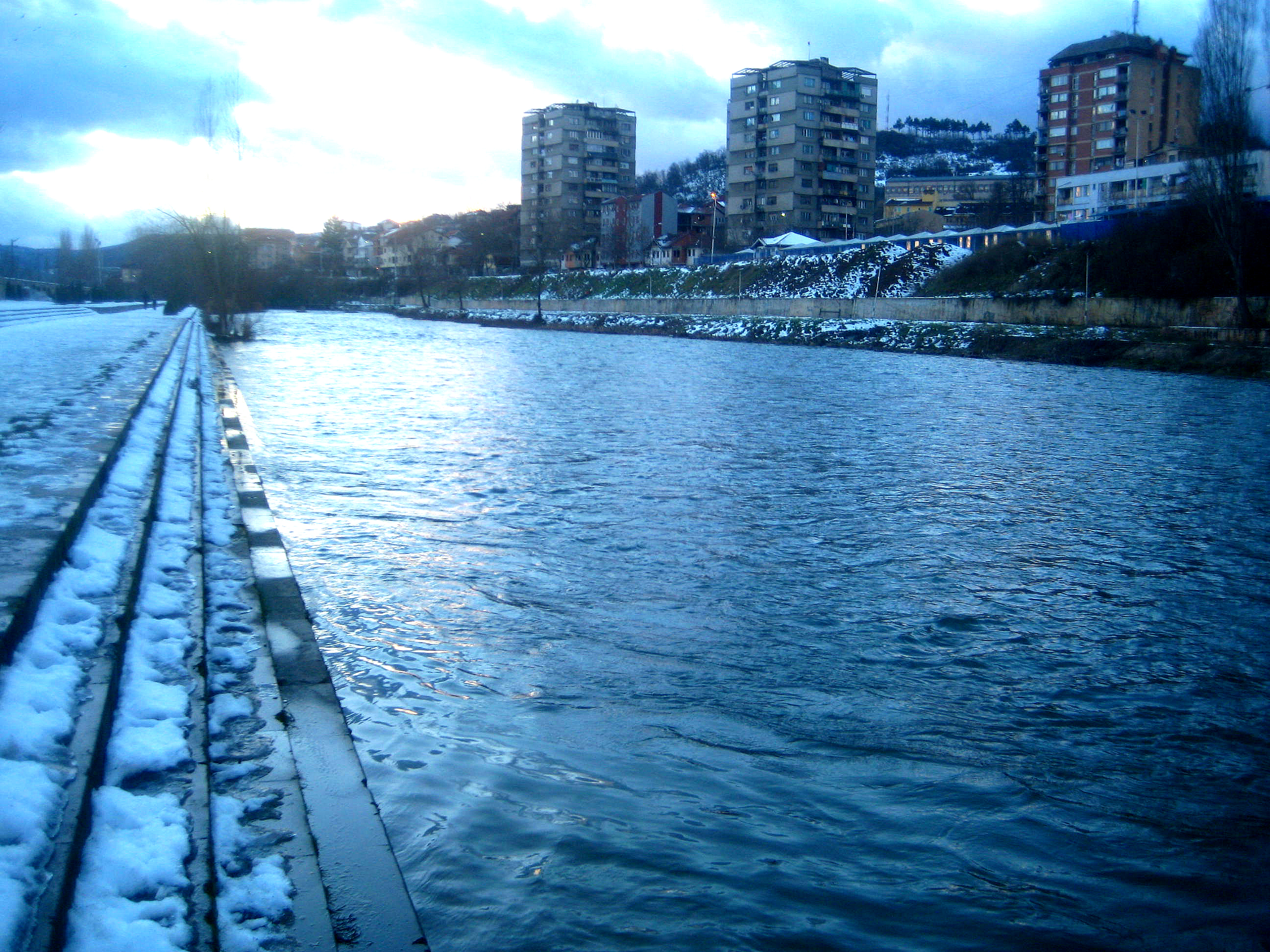 Ibar River in Mitrovica 2015